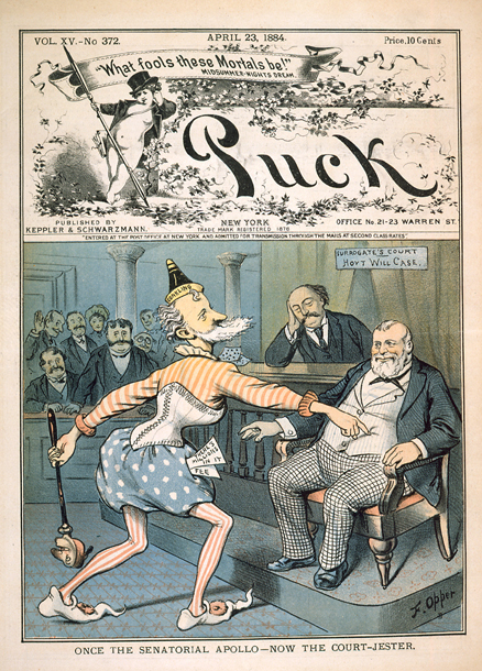 Puck showing masthead The cover of the April 23, 1884 issue of "Puck" Magazine. The "jester" is Roscoe Conkling arguing the Jesse Hoyt will case.